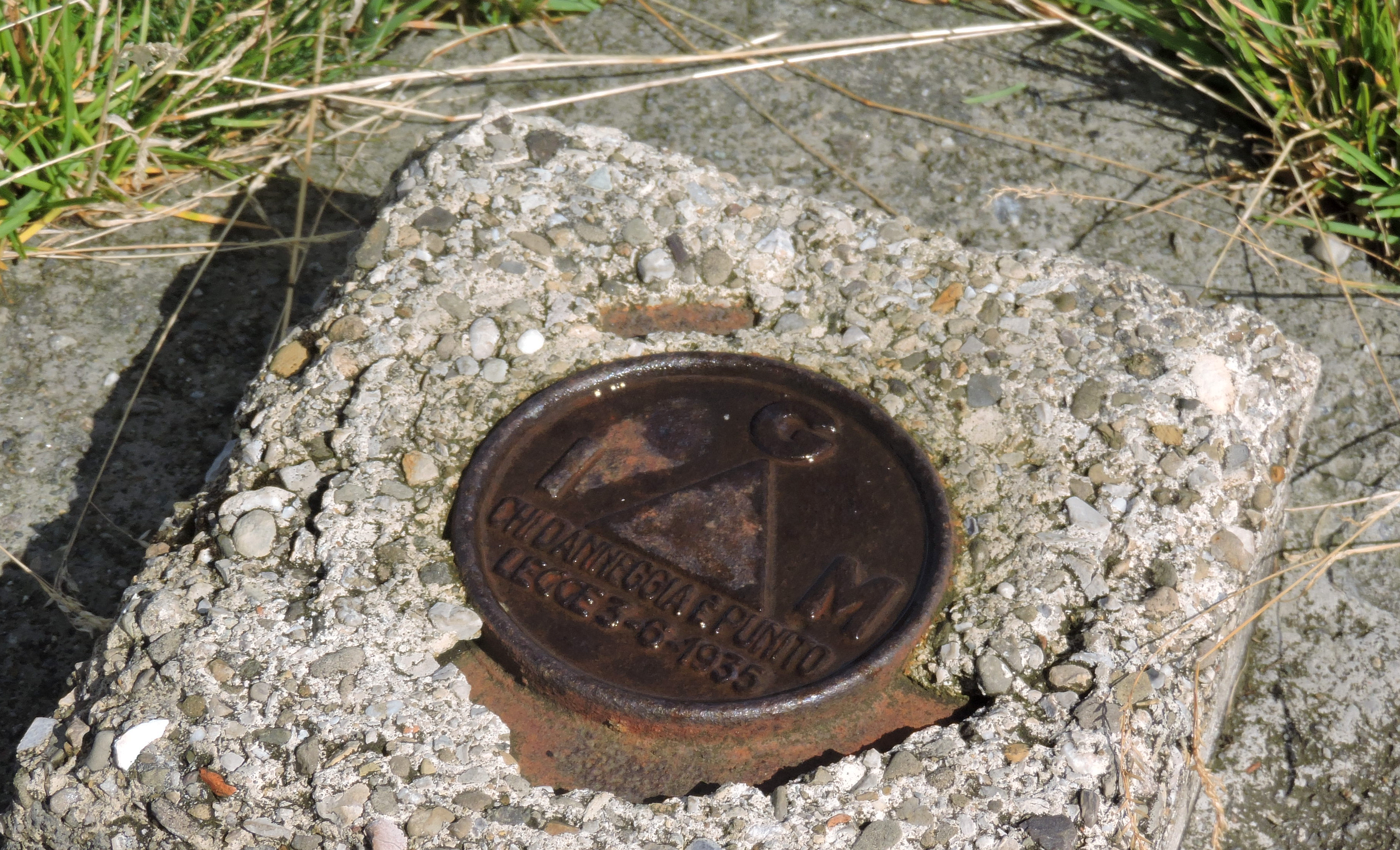 Monte Capio (Pennine Alps, Italy): IGM trig point